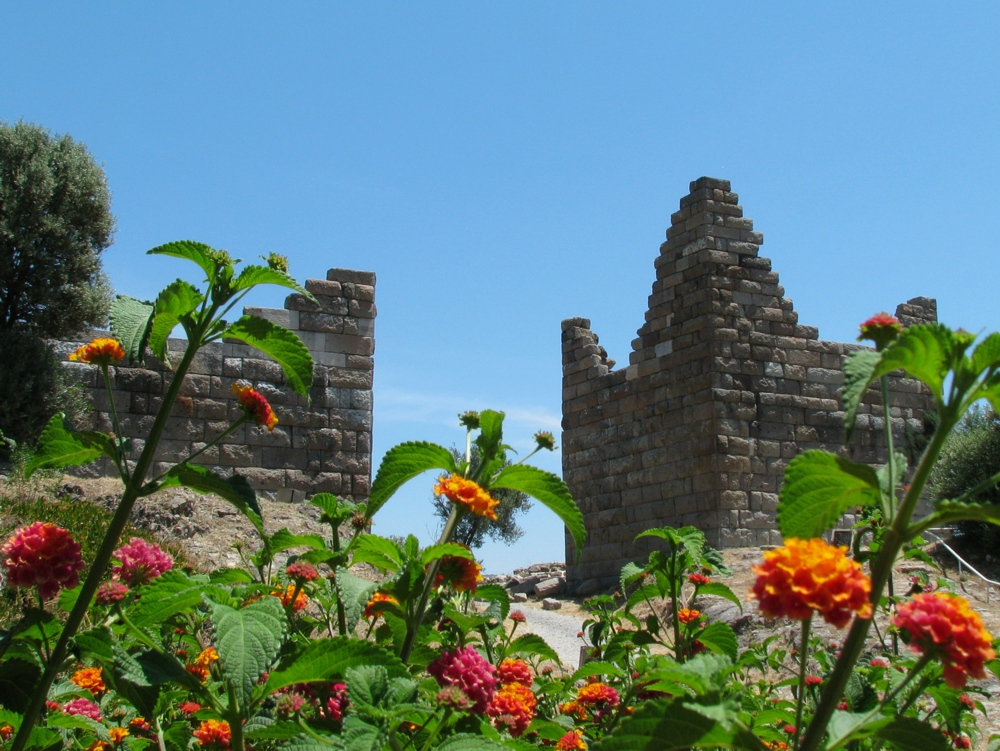 The city wall of ancient Halikarnassus (Bodrum Peninsula, Turkey) dates from 364 B.C. The 7 km long city wall surrounded the town from the west side of the harbor to Goktepe.